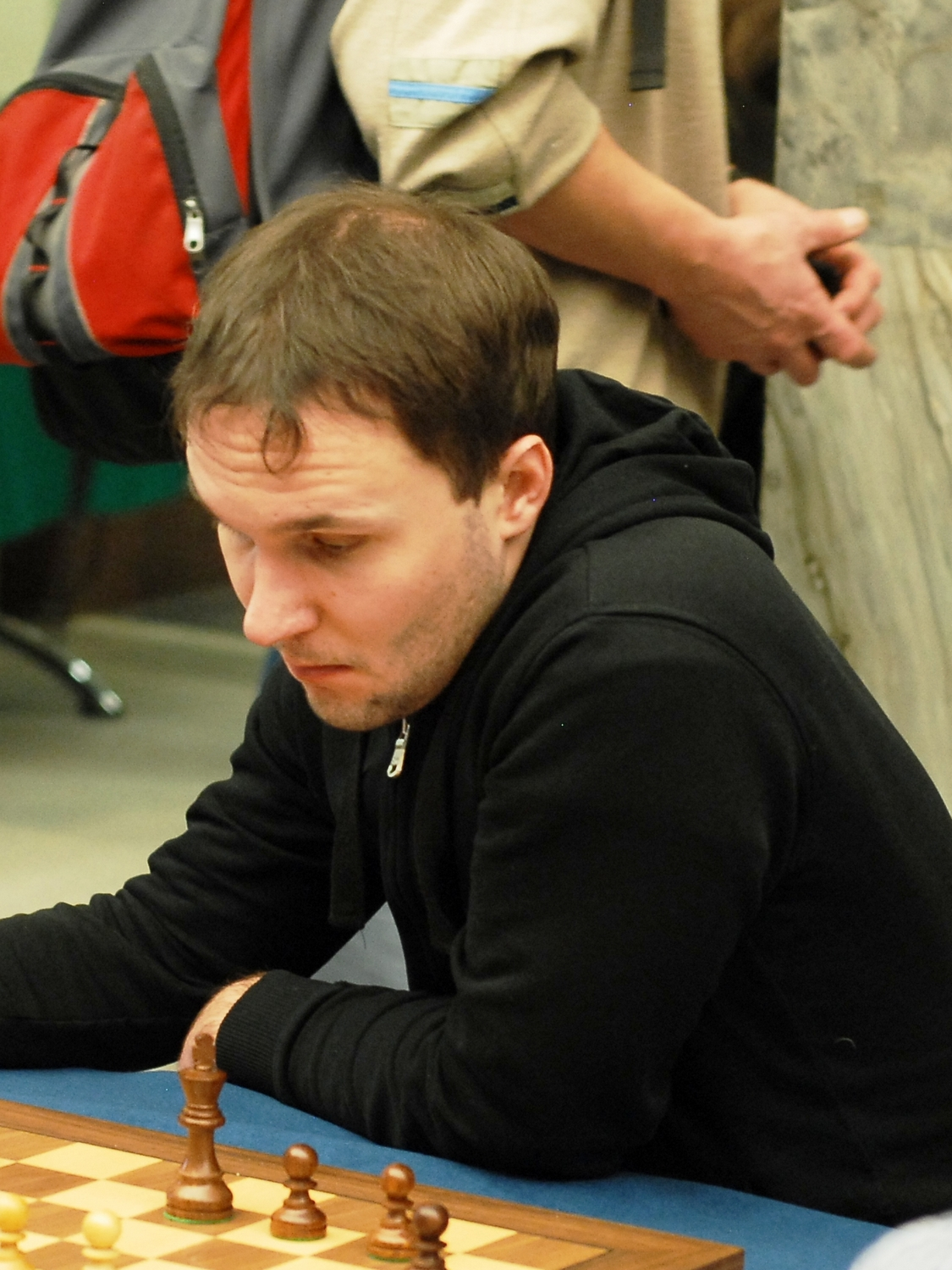 GM Nikita Maiorov, European Rapid Chess Championship, Warsaw 2012.